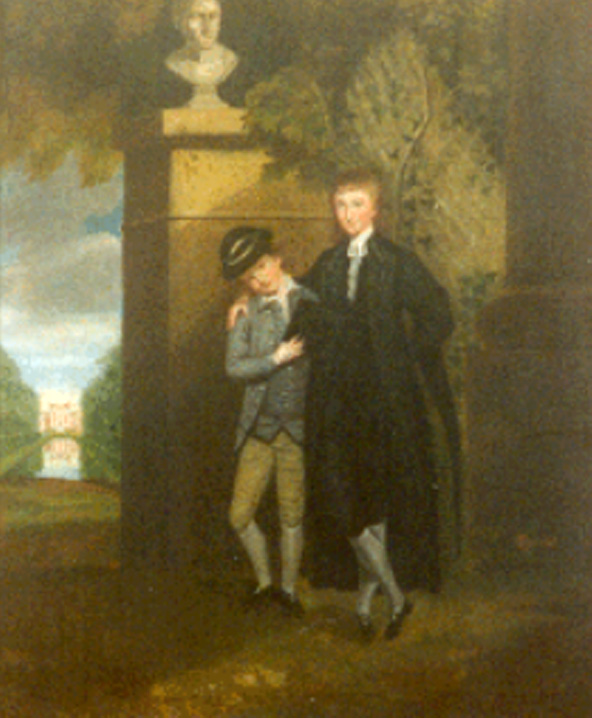 George and Edward Nares outside their home Warbrook House in about 1770